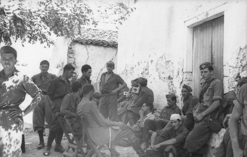 Information added by Wikimedia users.*